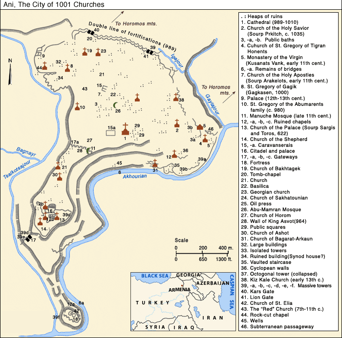 Map of Ani